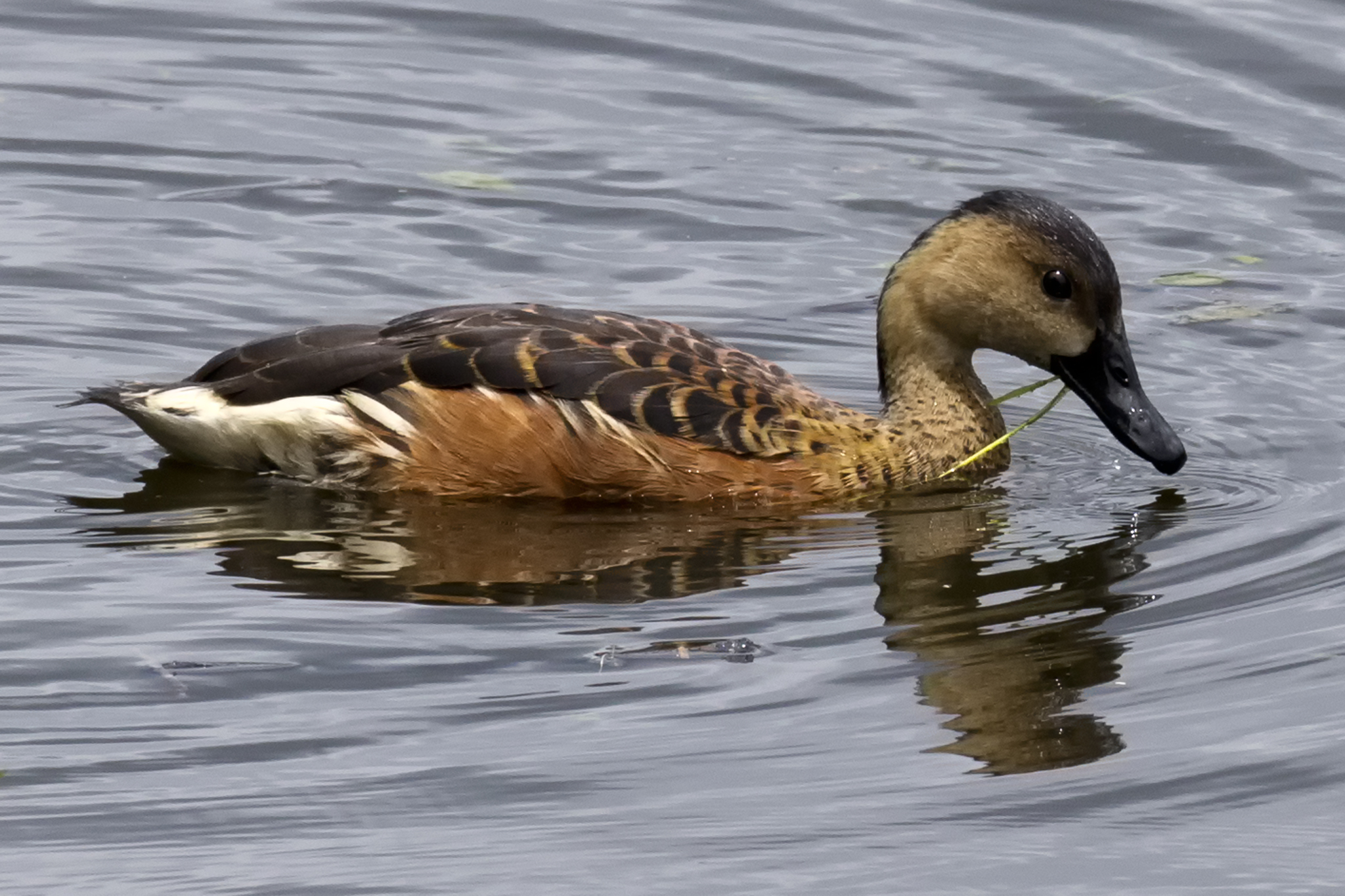 Similar to the plumed whistling duck, but it has grey feet and no wing plumes. A very pretty bird